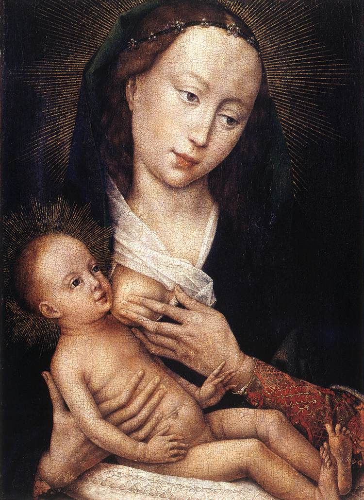 Madonna with Child, attributed to Rogier van der Weyden (or workshop), with extensive restoration and additions by Jef Van der Veken during the first part of the 20th century. This painting formed part of the Renders Collection which was sold to Nazi leader Hermann Göring during World War II. The painting is therefore often referred to as the "Renders Madonna"